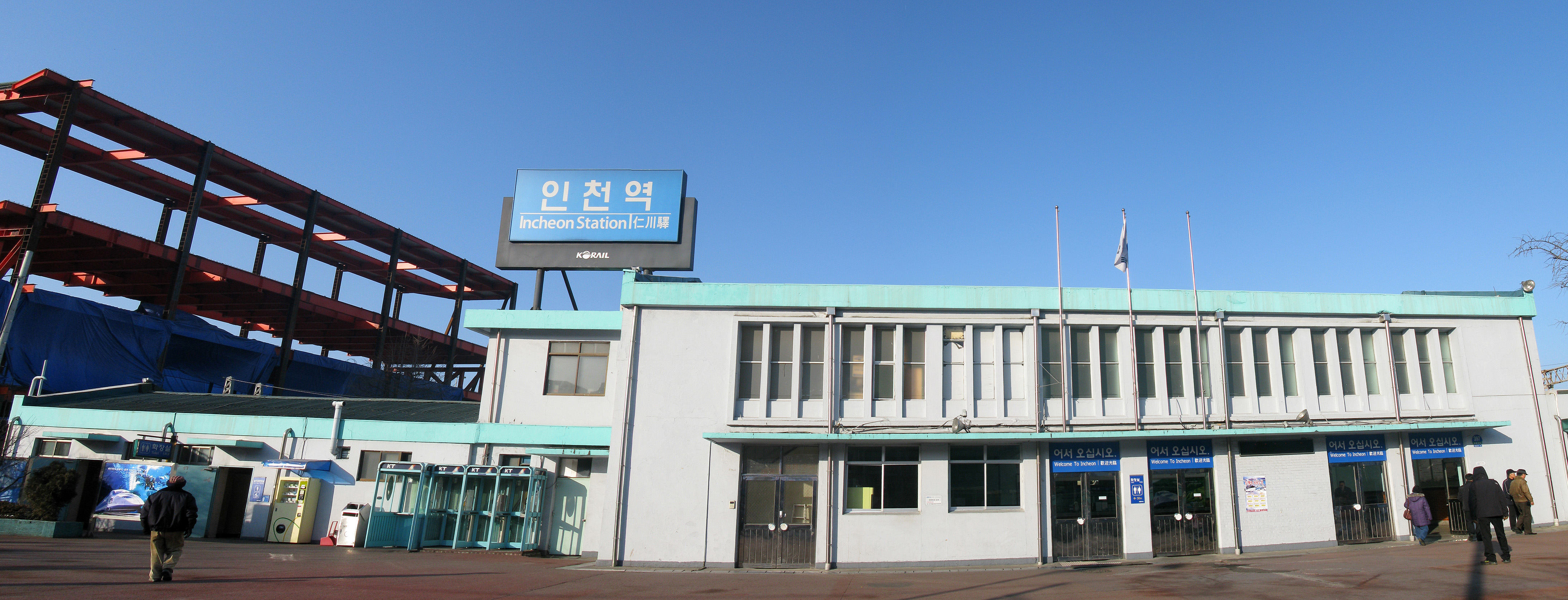 Gyeongin Line Incheon Station